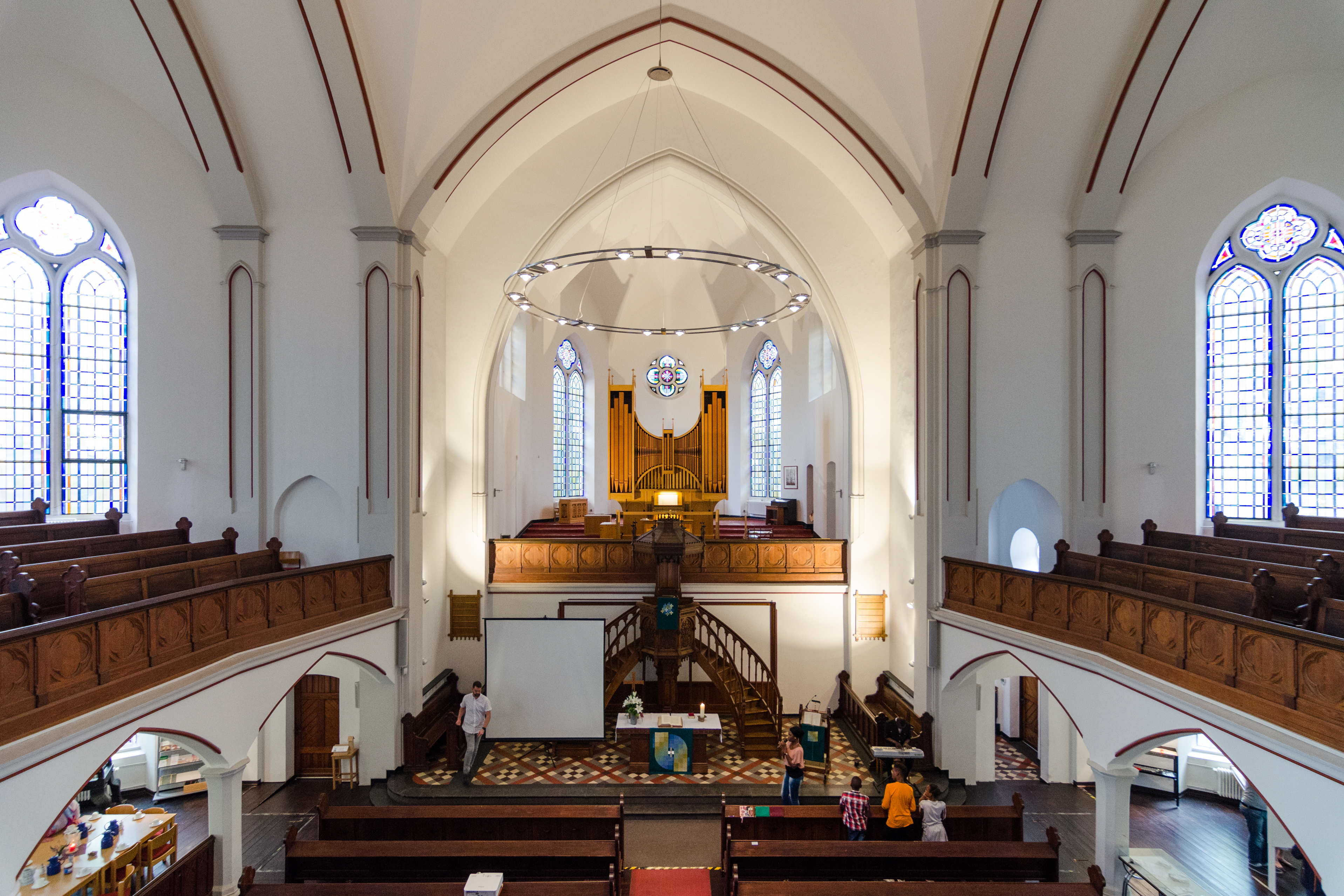 Duisburg (North Rhine-Westphalia, Germany) – borough Hamborn, district Marxloh – Protestant Holy Cross Church – interior